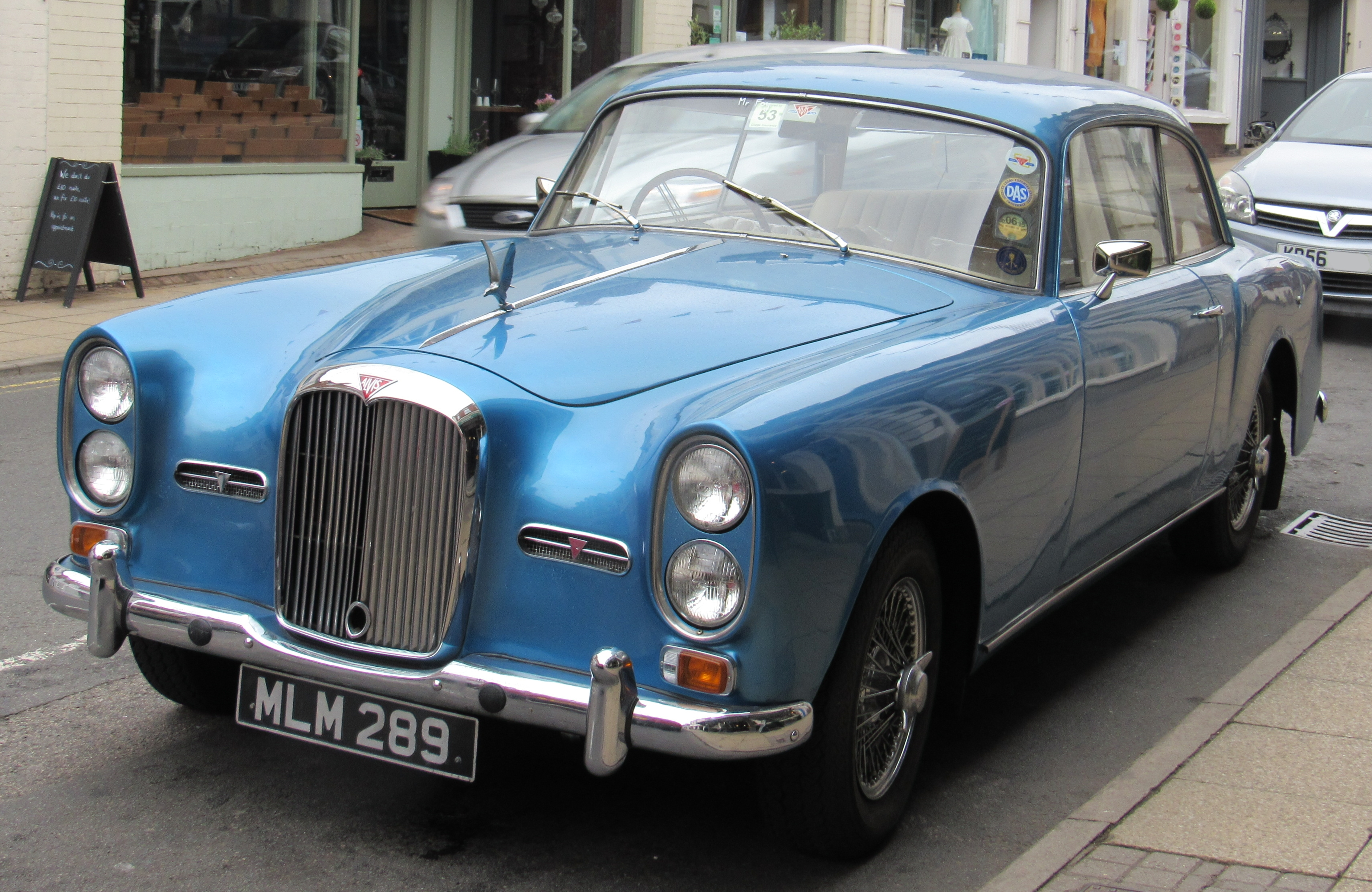 1964 Alvis TE 21 (Three Litre Series III) 3.0 Front Taken in Warwick